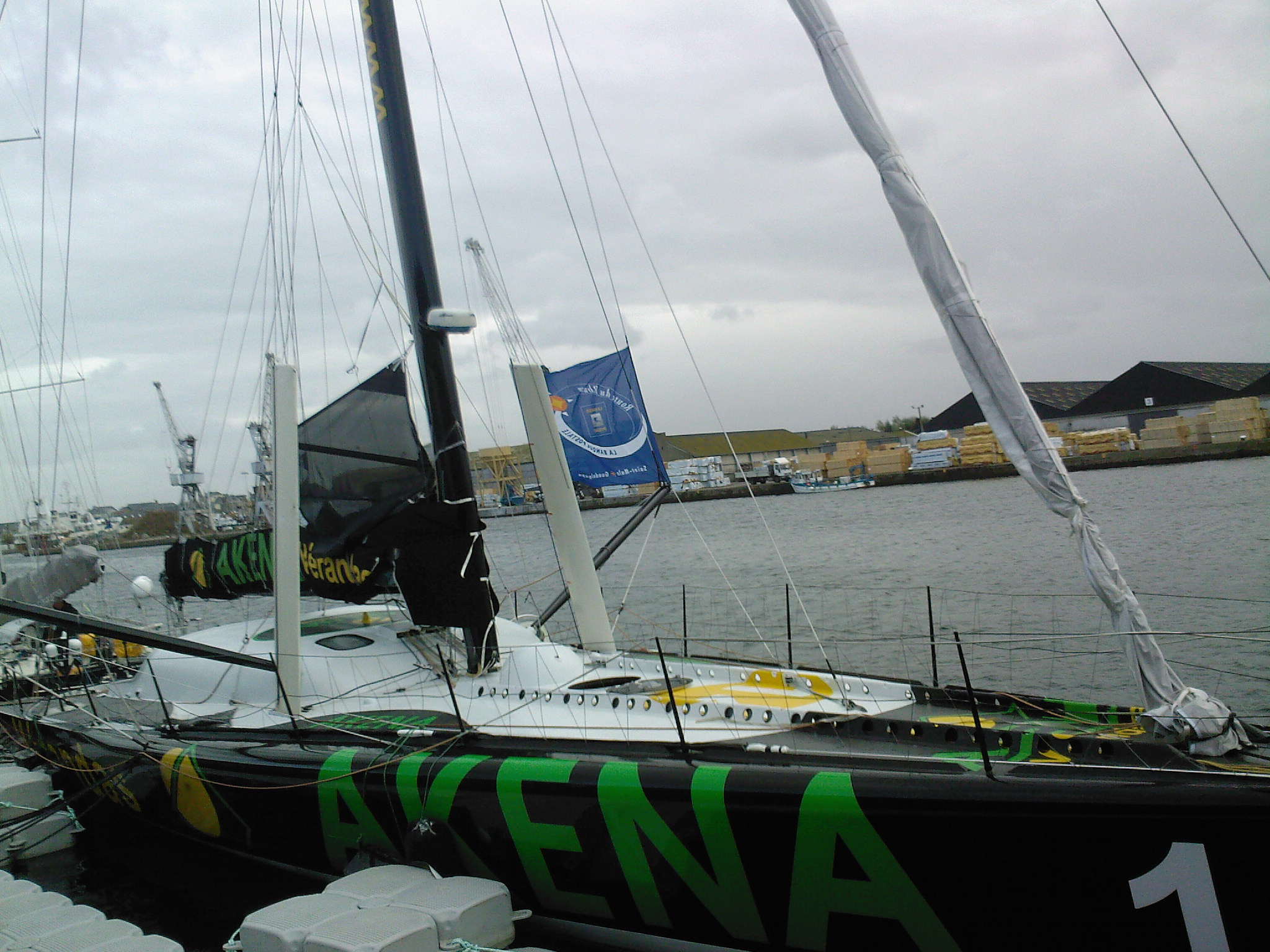 Akena Vérandas by Arnaud Boissières at ocean race route du Rhum 2010 quay Duguay-Trouin saint malo britany france